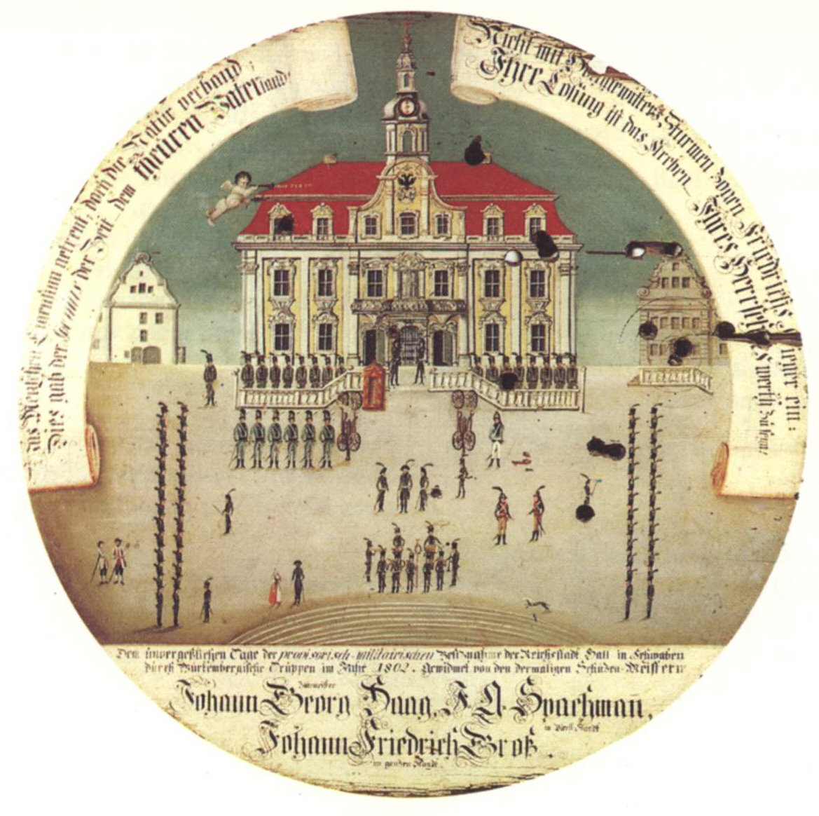 Shooting target from 1802 or 1803 showing Württemberg soldiers parading in front of the town hall of Schwäbisch Hall. Württemberg peacefully occupied and annexed that city in 1802. Like nearly all the other free Imperial cities, Hall lost its independence in the course of the German mediatization of 1802-1803.